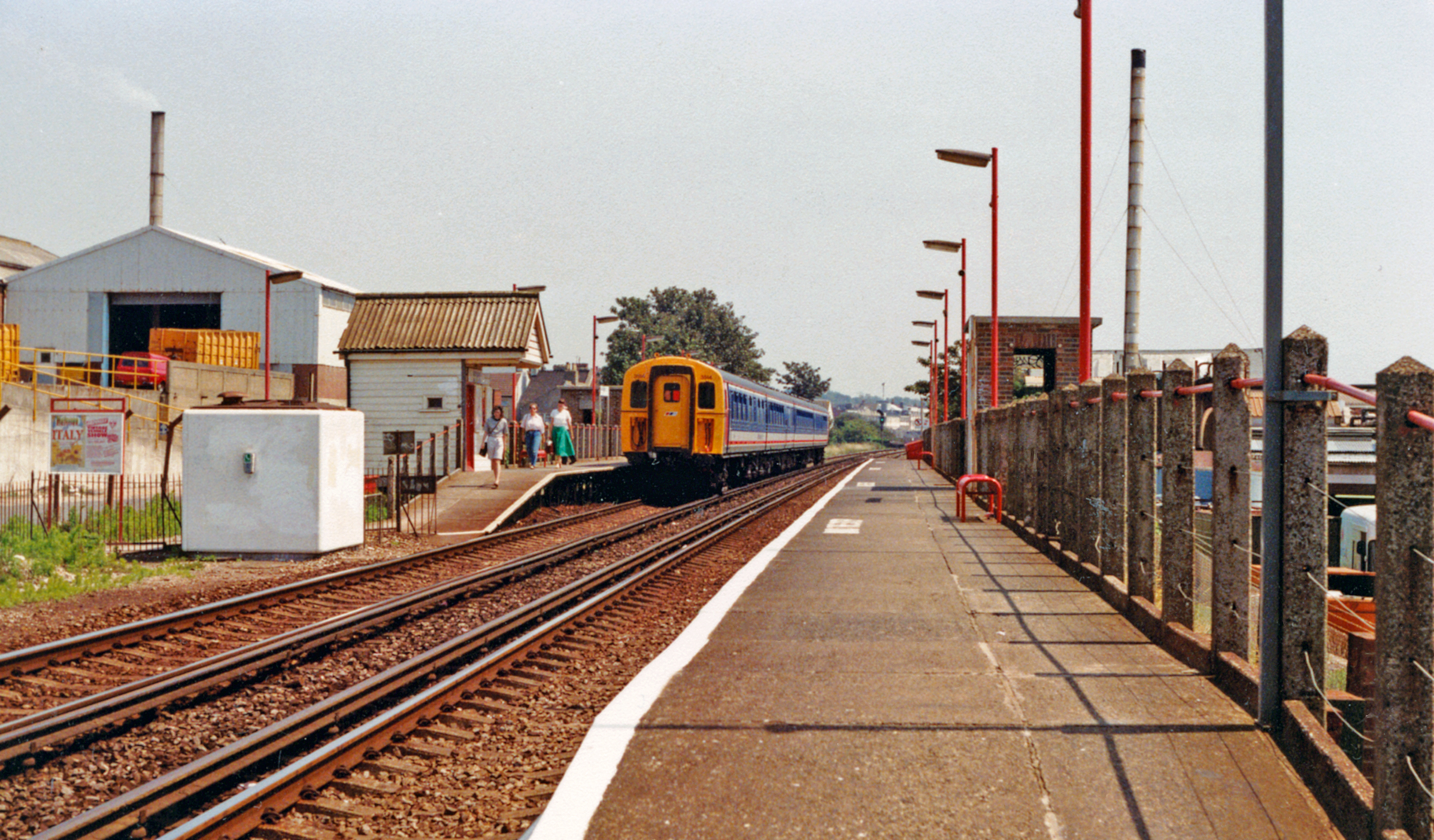 Aldrington station, 1990. View eastward, towards Hove and Brighton: ex-LB&SCR Brighton - Littlehampton/Portsmouth main line. The station was 'Dyke Junction' until 6/32, Aldrington 'Halt' until 5/69.